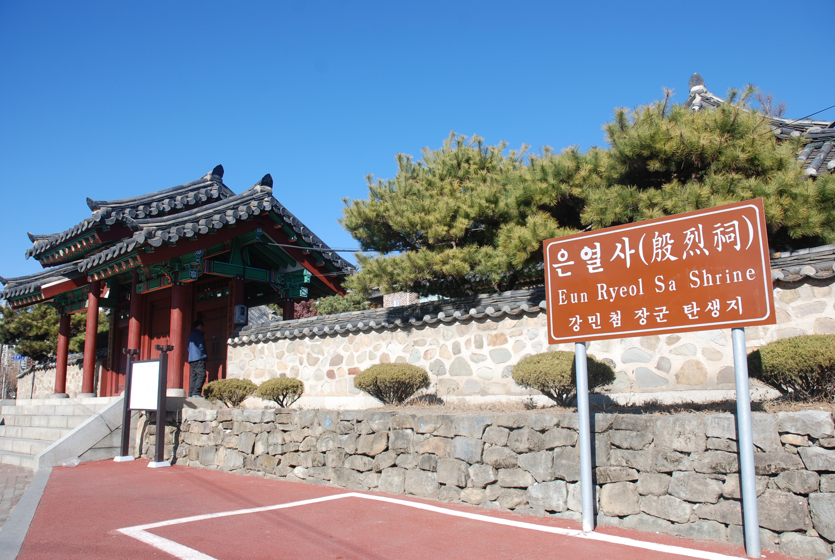 Eunyeol Shrine in Jinju